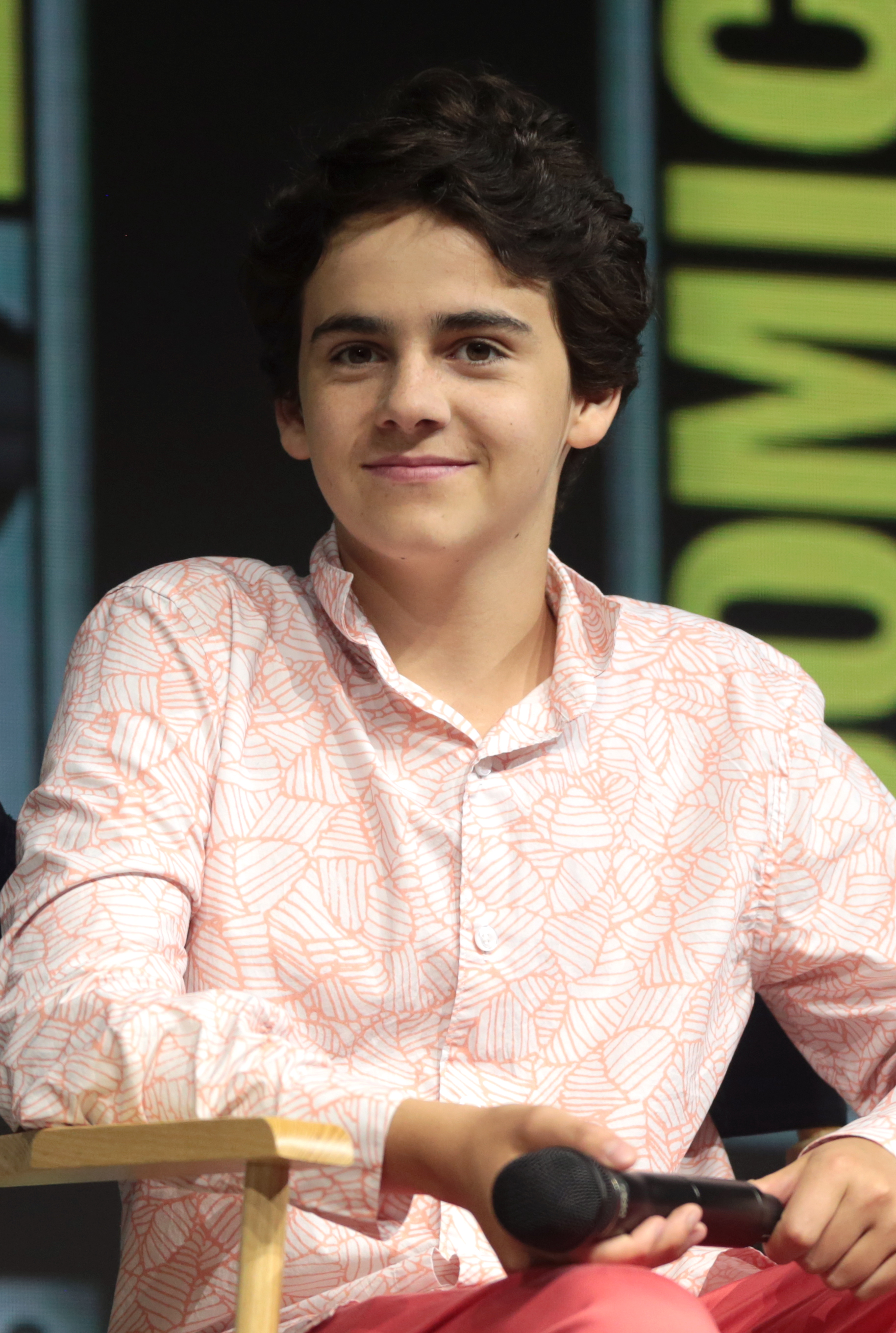 Jack Dylan Grazer speaking at the 2018 San Diego Comic-Con International in San Diego, California.